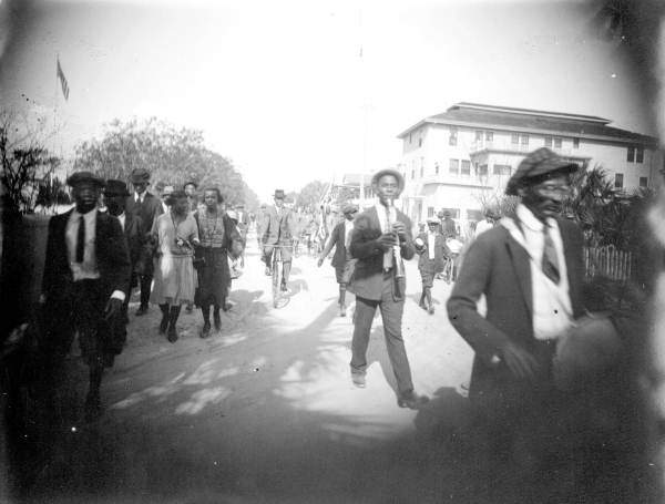 Street parade in Lincolnville, Florida on Emancipation Day, May 20 1920s.